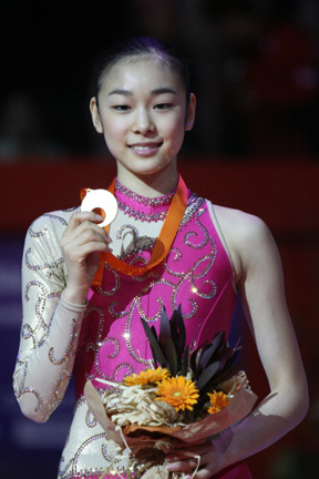 Kim Yu-Na during the ladies medals ceremony at the 2007-2008 Grand Prix Final.